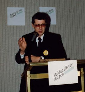 George Dance, June 1987.